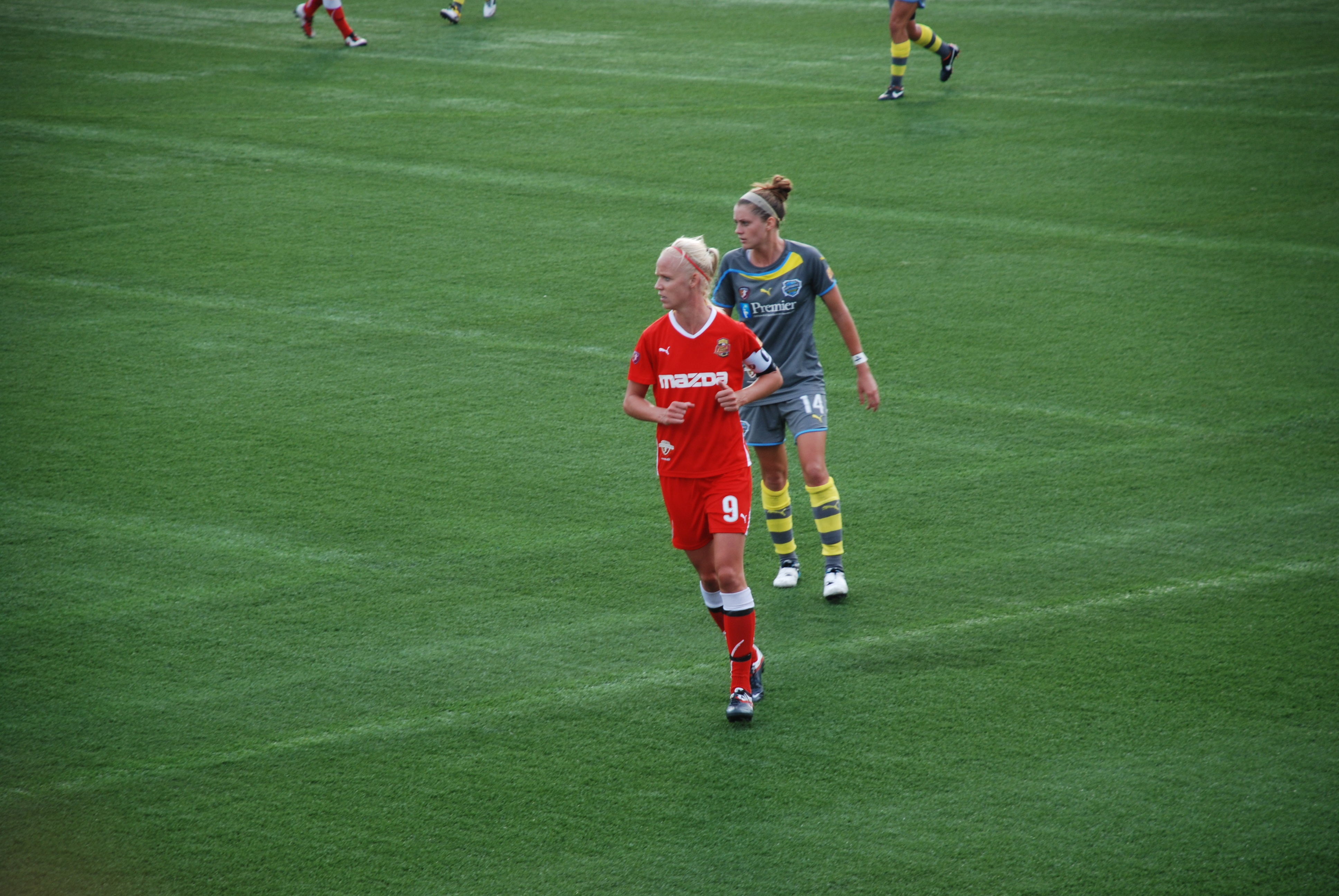 The Flash's Caroline Seger (9, Red) and Philadelphia's Sinead Farrelly (14, Grey)